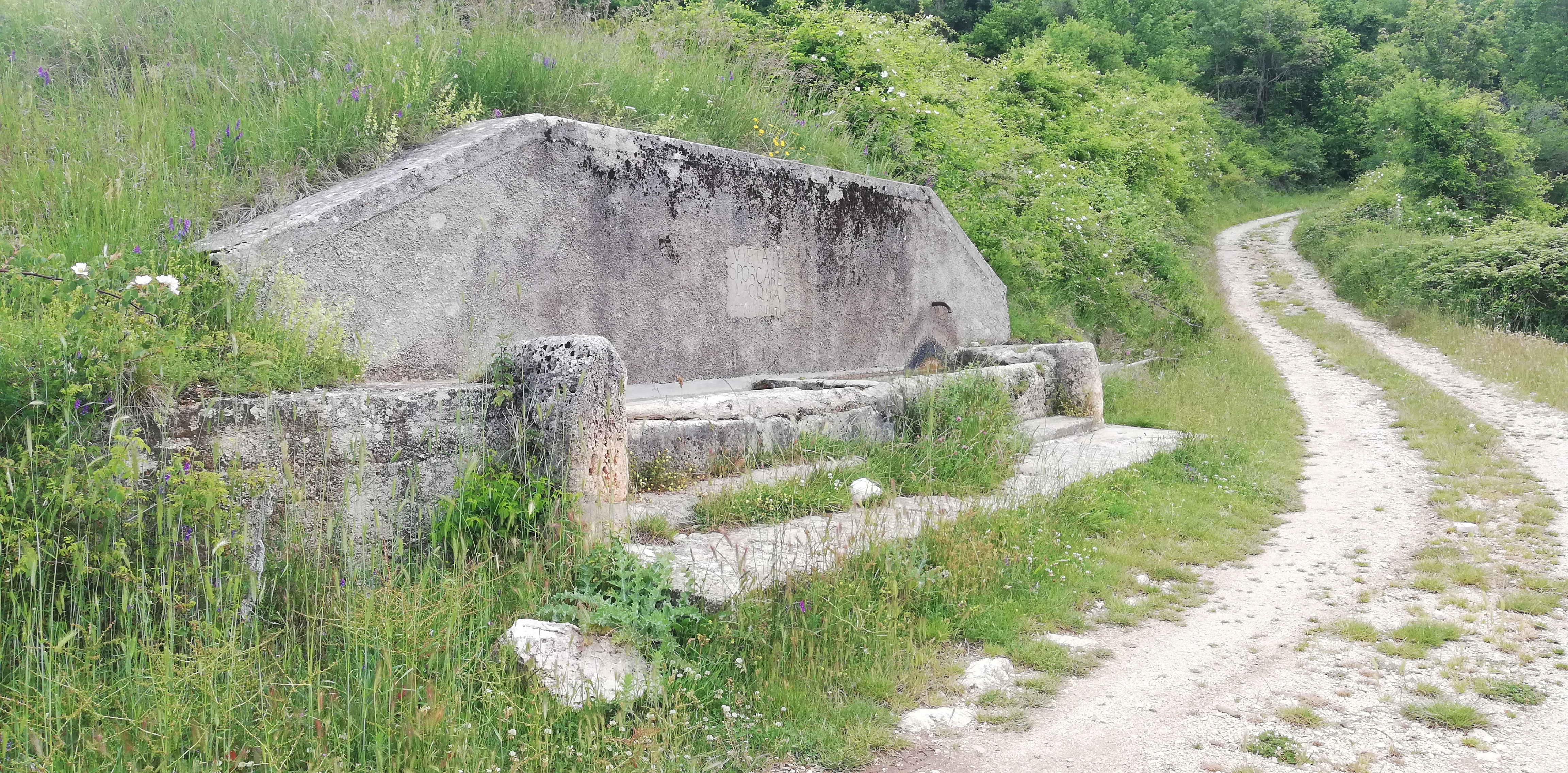 Fonte d'acqua a sud rispetto al santuario.